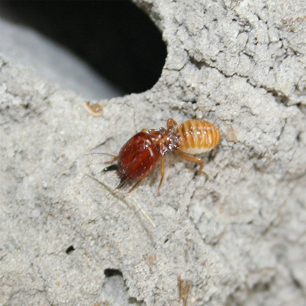 A picture of a soldier termite (Macrotermitinae) in the Okavango Delta.